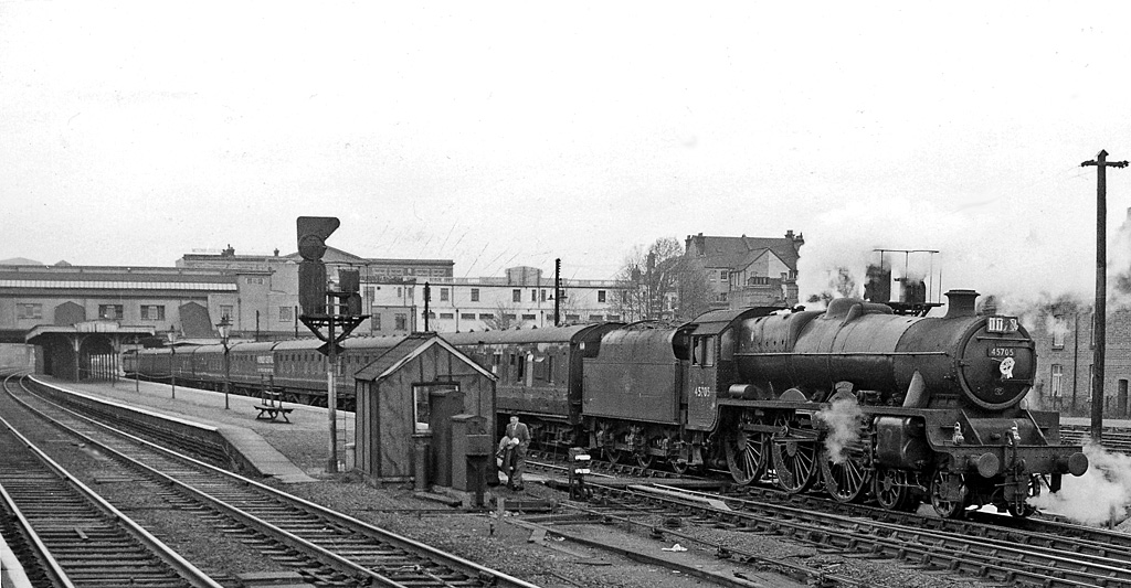 Wembley (Central) Station, with Cup Final Special. View northward, from Down Fast platform, towards Watford Junction etc.; West Coast Main Line. The Cup Final Special is on the Up Slow line. It is from Burnley, hauled by LMS 'Jubilee' 6P 4-6-0 No. 45705 'Seahorse'. (Burnley lost to Tottenham Hotspurs, 1 to 3). I was far more interested in watching all the Specials, on both WCML and on the ex-Great Central line which crossed just to the north.